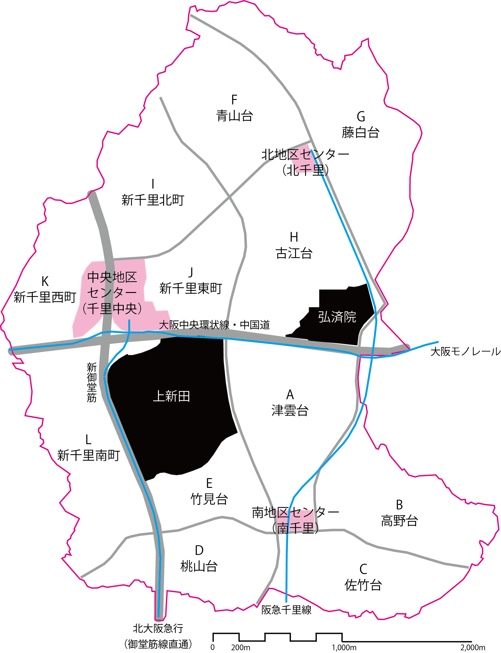 The map of Senri New Town, in Japanese.